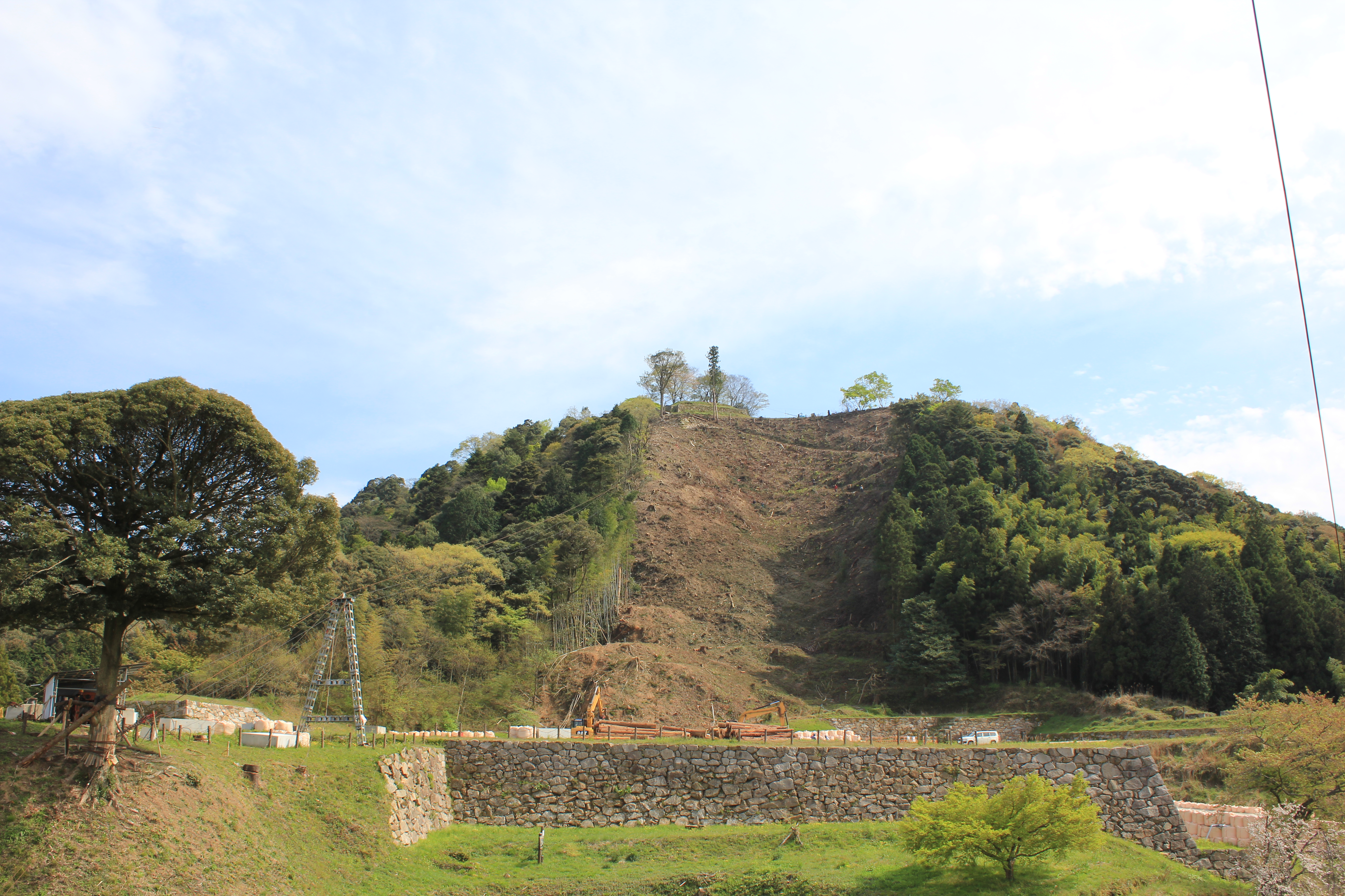 Gassan Honmaru part of under construction (2016)